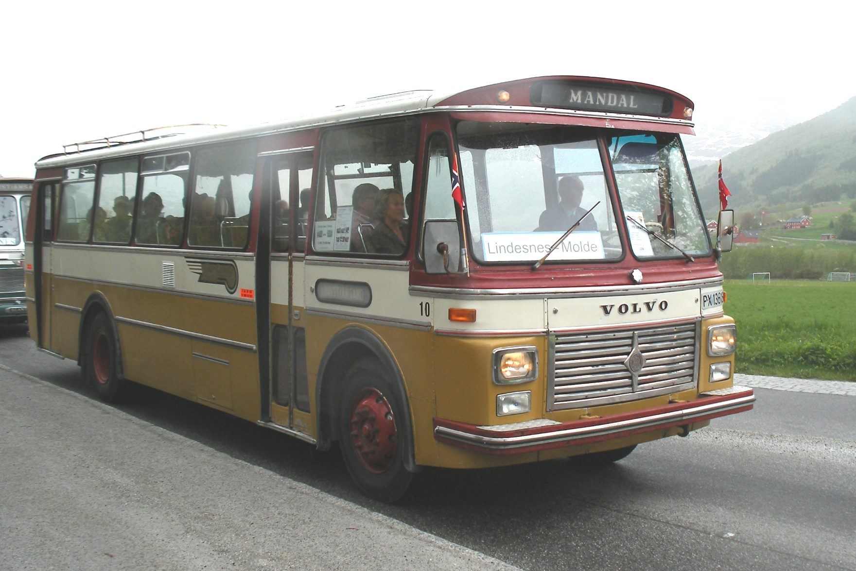 Old bus from Norway. Volvo BB57 bus. Mandal.